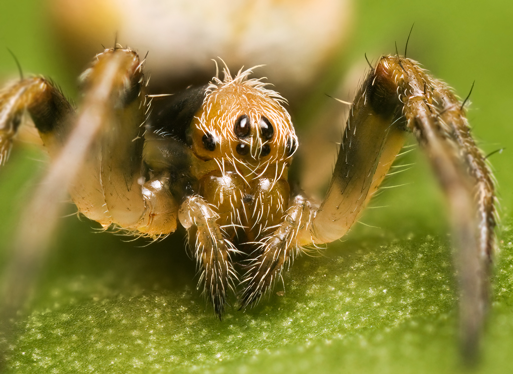 Eriophora sp